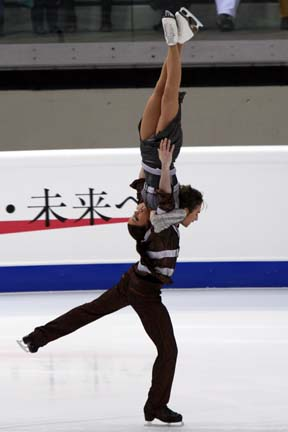 Grand Prix Final 2007-2008 Nathalie PECHALAT and Fabian BOURZAT (FD)